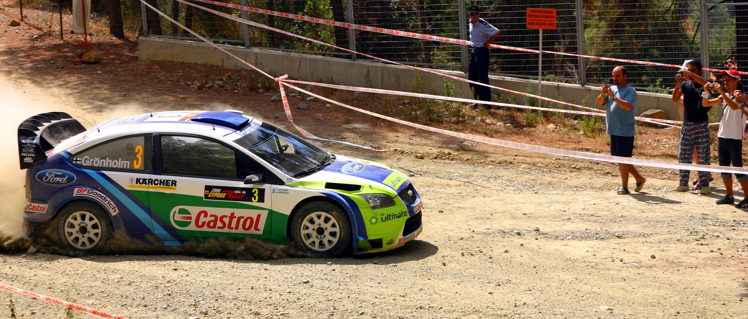 Marcus Grönholm on SS4 of the 2006 Cyprus Rally.